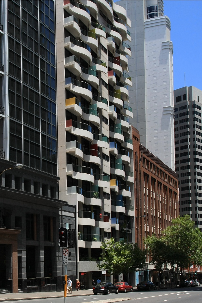 North Apartments, Goulburn St, Sydney